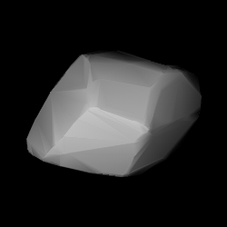 3D convex shape model of 877 Walküre, computed using light curve inversion techniques. J. Hanuš, J. Ďurech, M. Brož, B. D. Warner (June 2011). "A study of asteroid pole-latitude distribution based on an extended set of shape models derived by the lightcurve inversion method". Astronomy and Astrophysics 530: A134. ISSN 0004-6361. arXiv